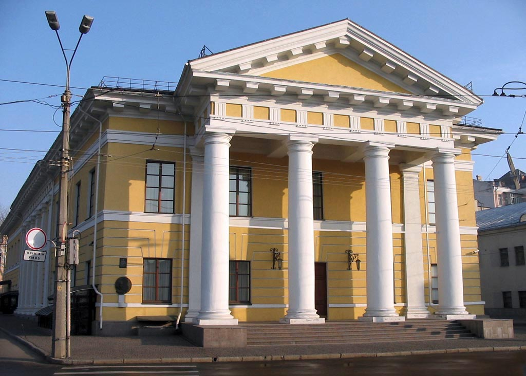 The Contracts House — in the Podil neighbourhood of Kiev, the capital of Ukraine.